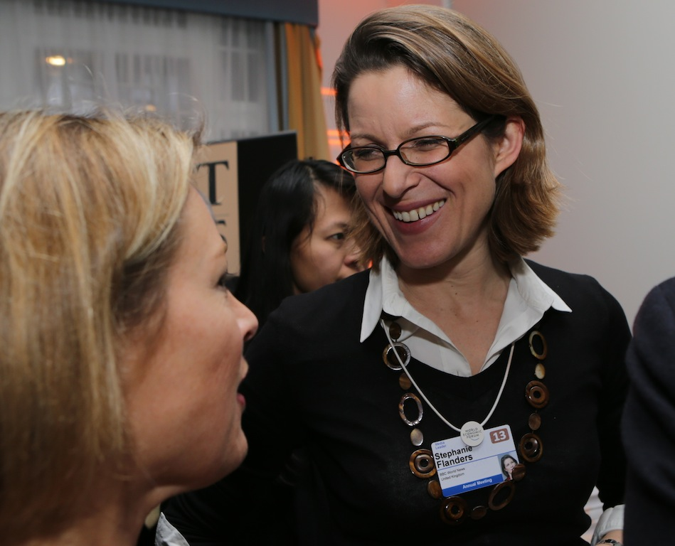 Stephanie Flanders, BBC economics editor and Gillian Tett, FT assistant editor